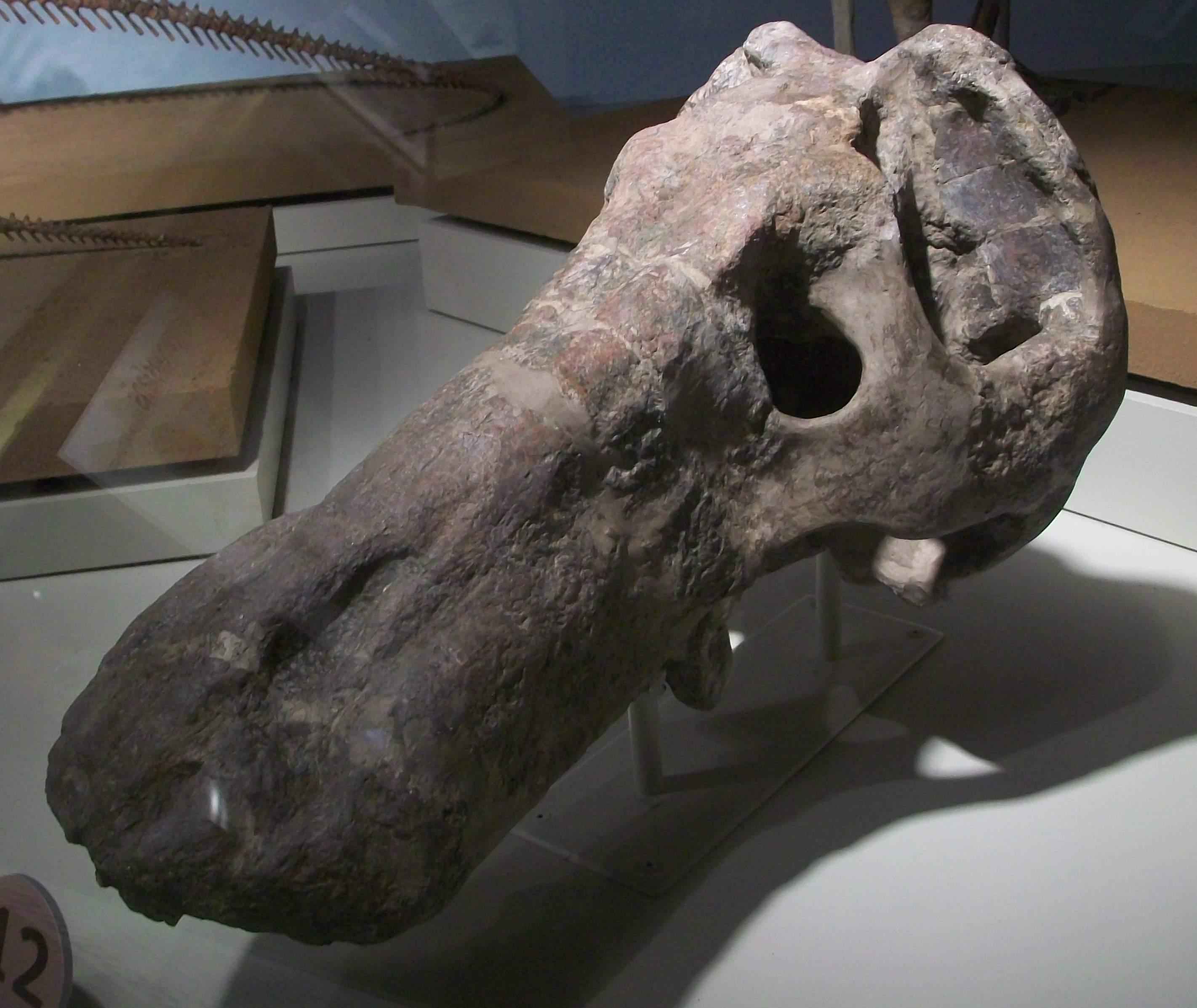 Skull of Jonkeria sp. in the Field Museum of Natural History.